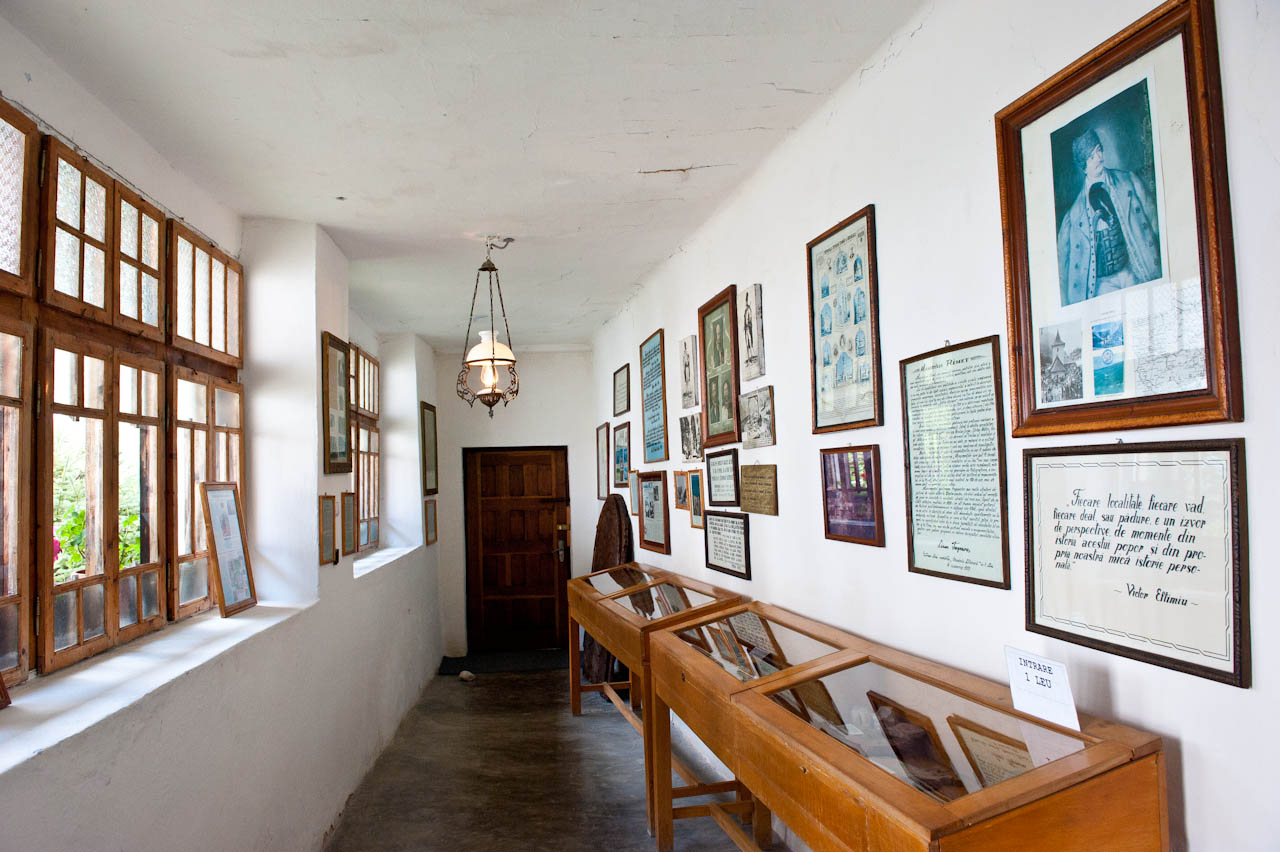 Monastery Râmeț